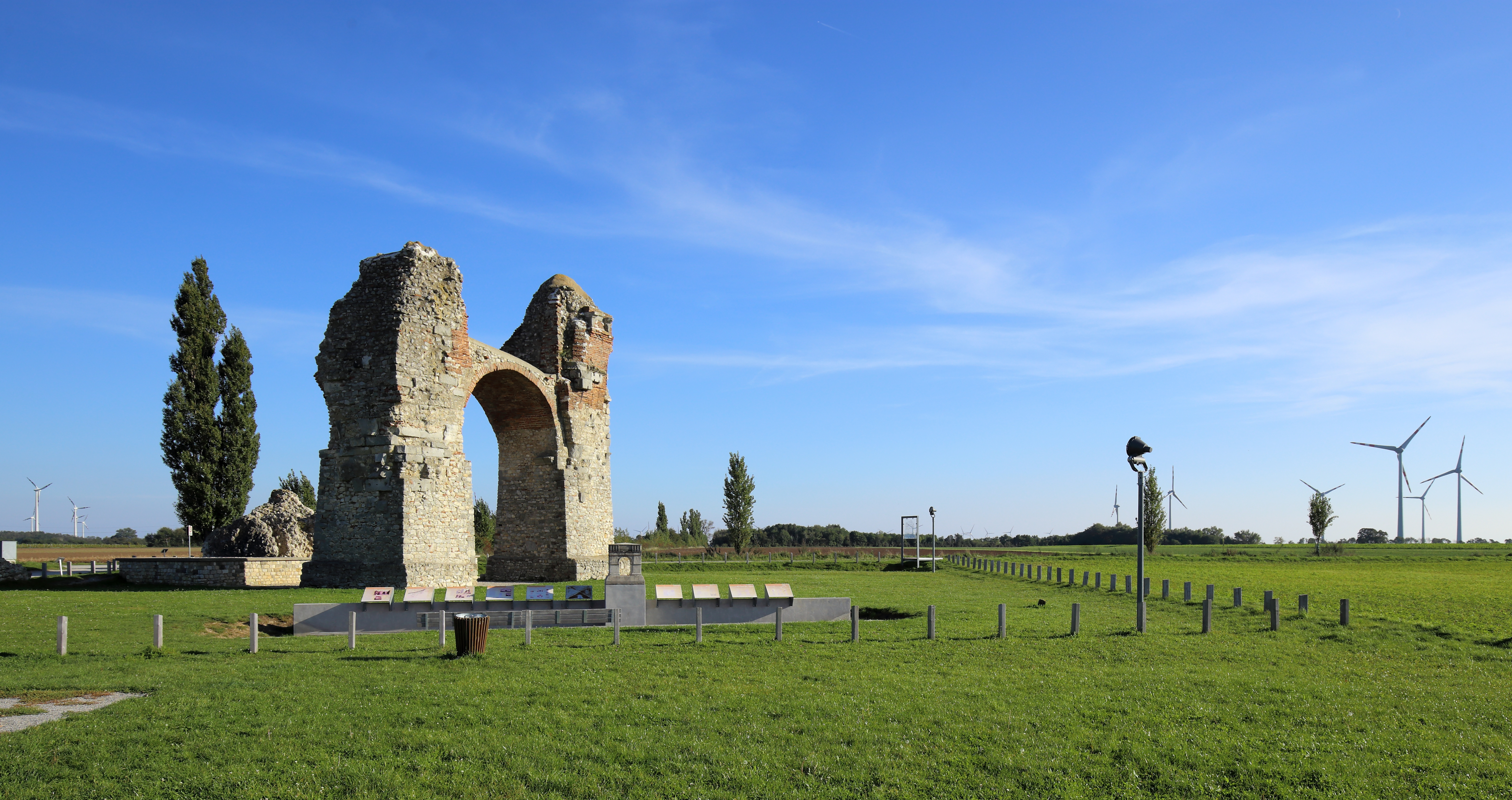 The ruin of the Heidentor (Pagan gate) in Carnuntum.